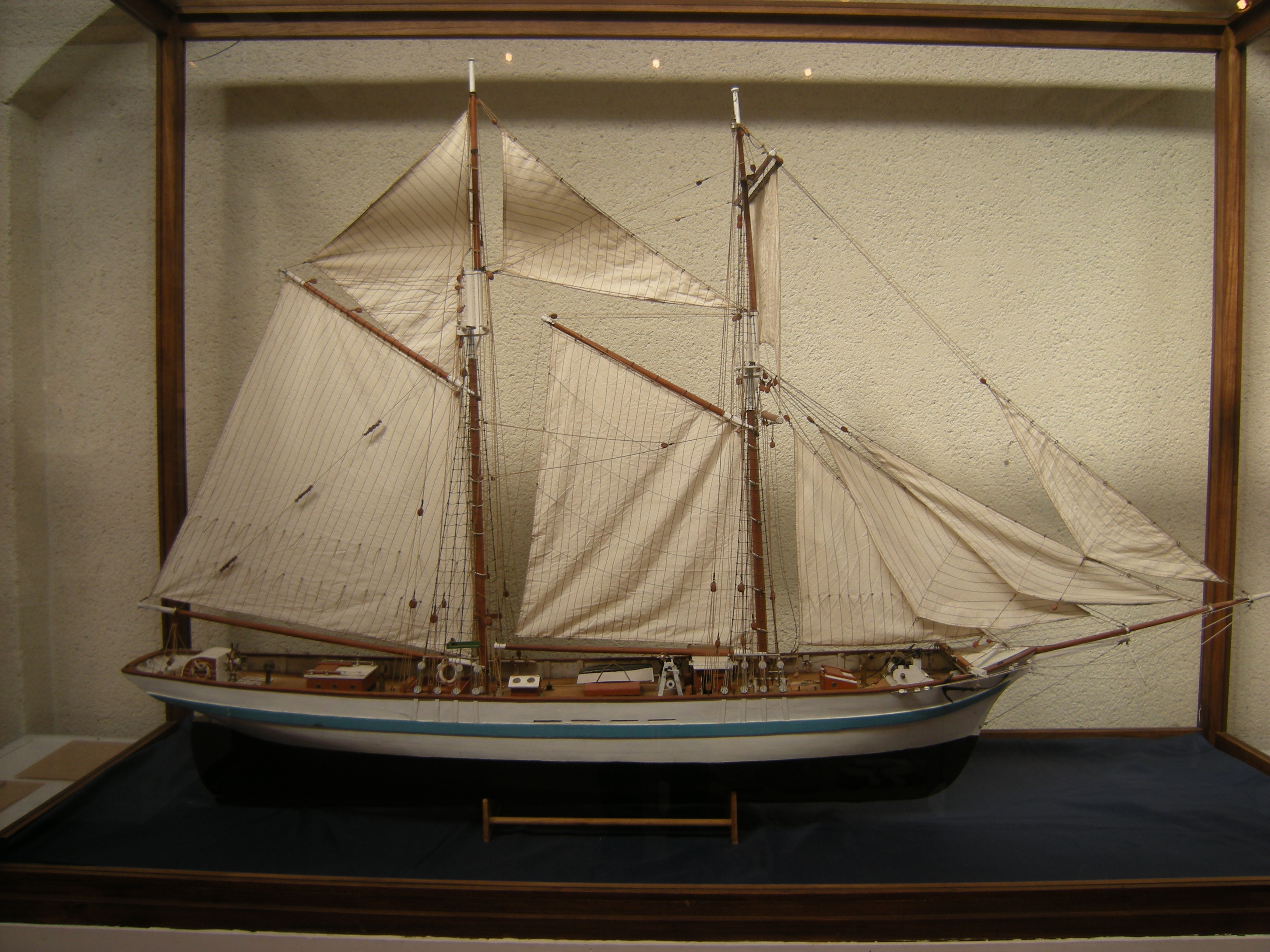 Occasion, first schooner from Paimpol used for fishing in Iceland in 1852, owner Louis Morand. Under her former name Rovodoa, she was used for slaves transport. Image made in Musée de la mer de Paimpol.